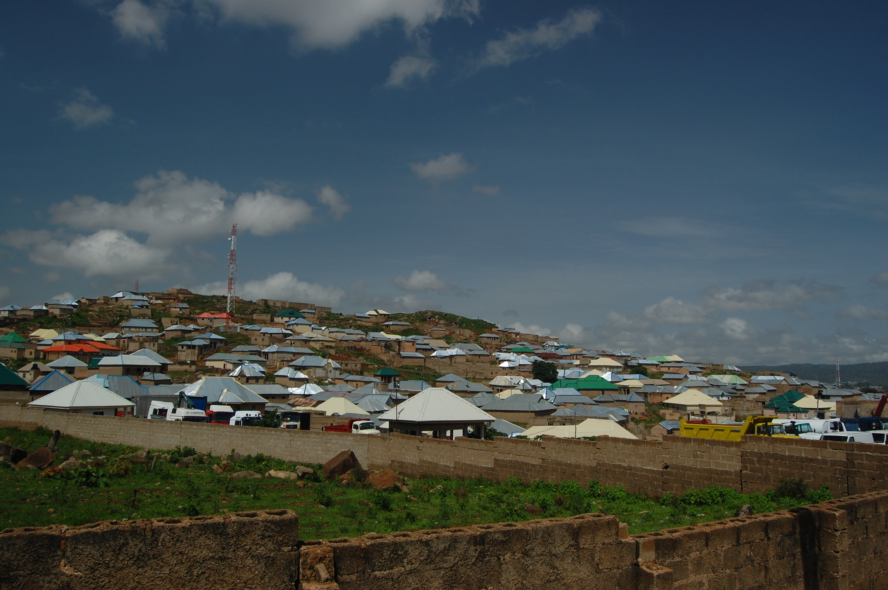 View near University Junction